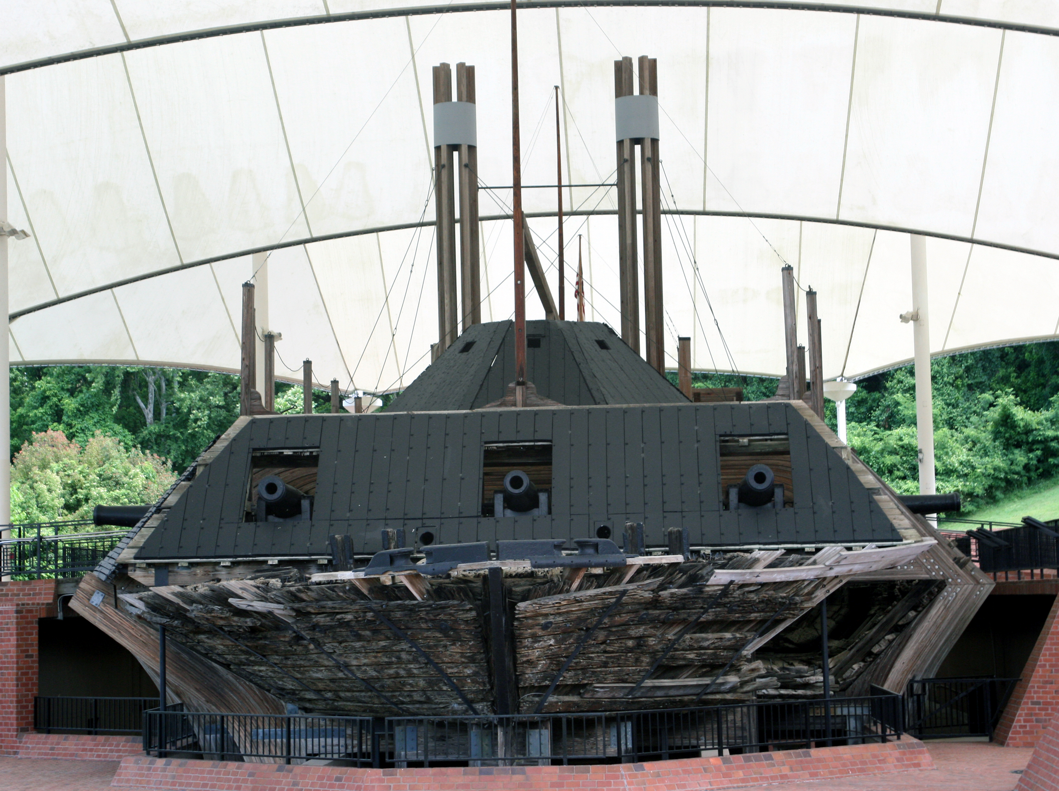 The U.S.S. Cairo at Vicksburge National Battlefield.